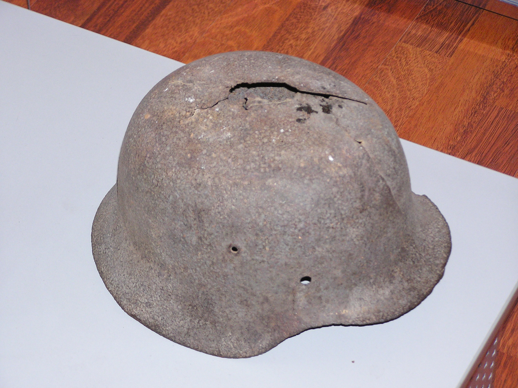 Museum of the History of Donetsk militsiya